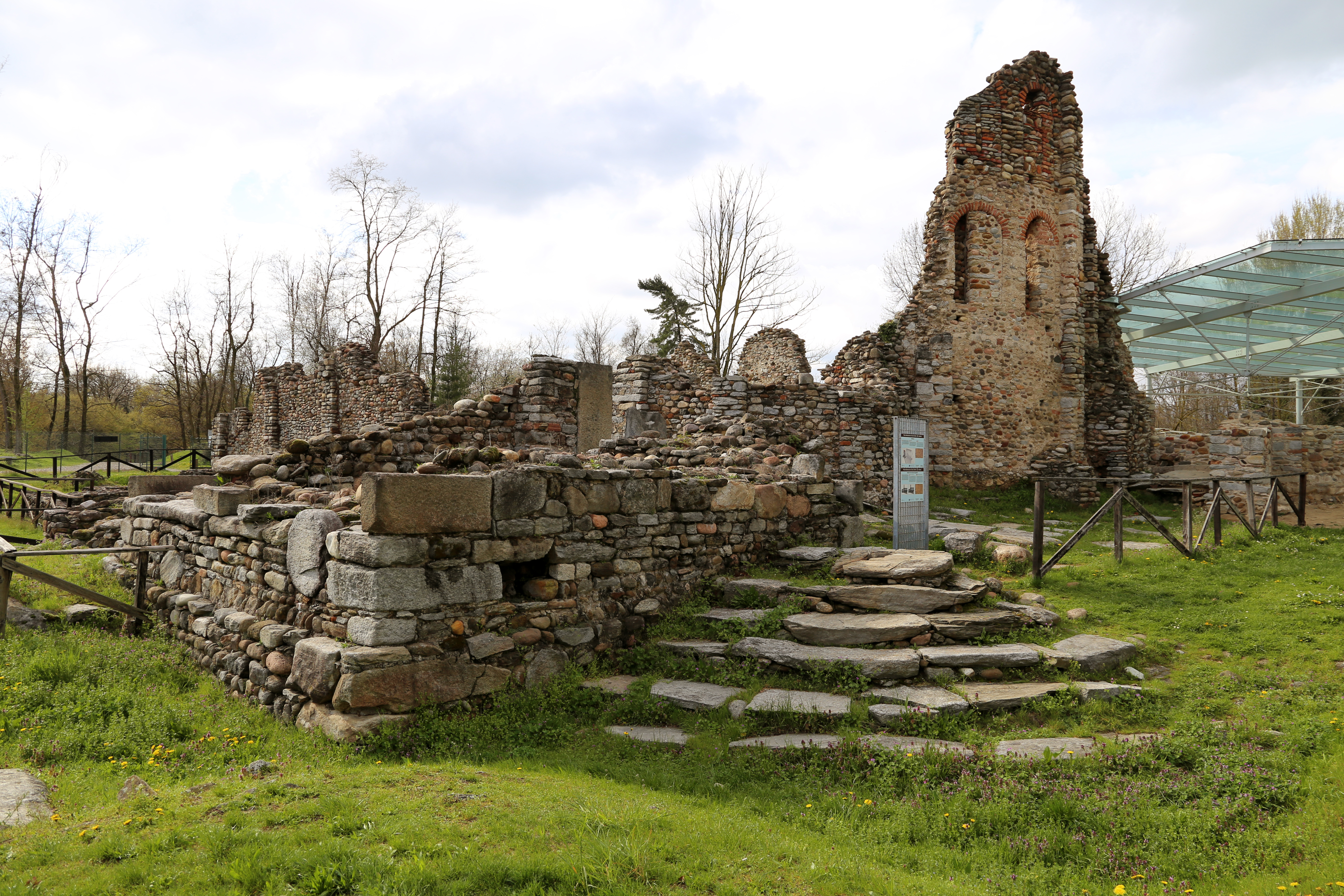 Castrum in Castelseprio